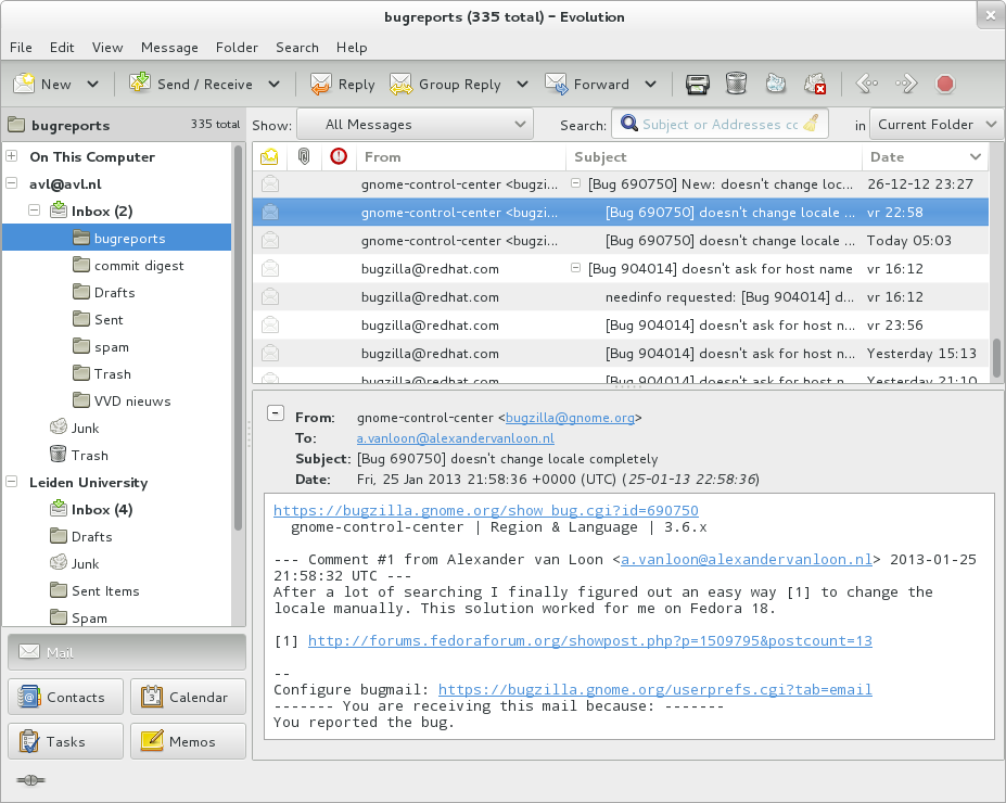 Reading e-mail in Evolution 3.6.2 on GNOME 3.6.2. The operating system is Fedora 18.